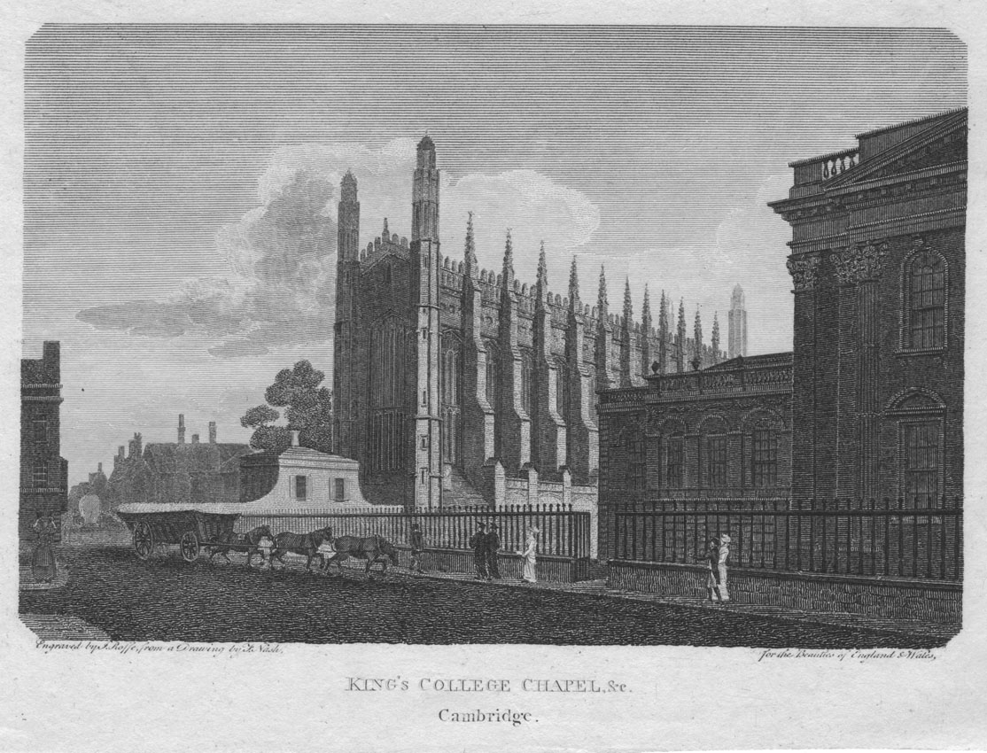 A steel engraving of the east end of King's College Chapel, Cambridge, as seen from King's Parade by Senate House